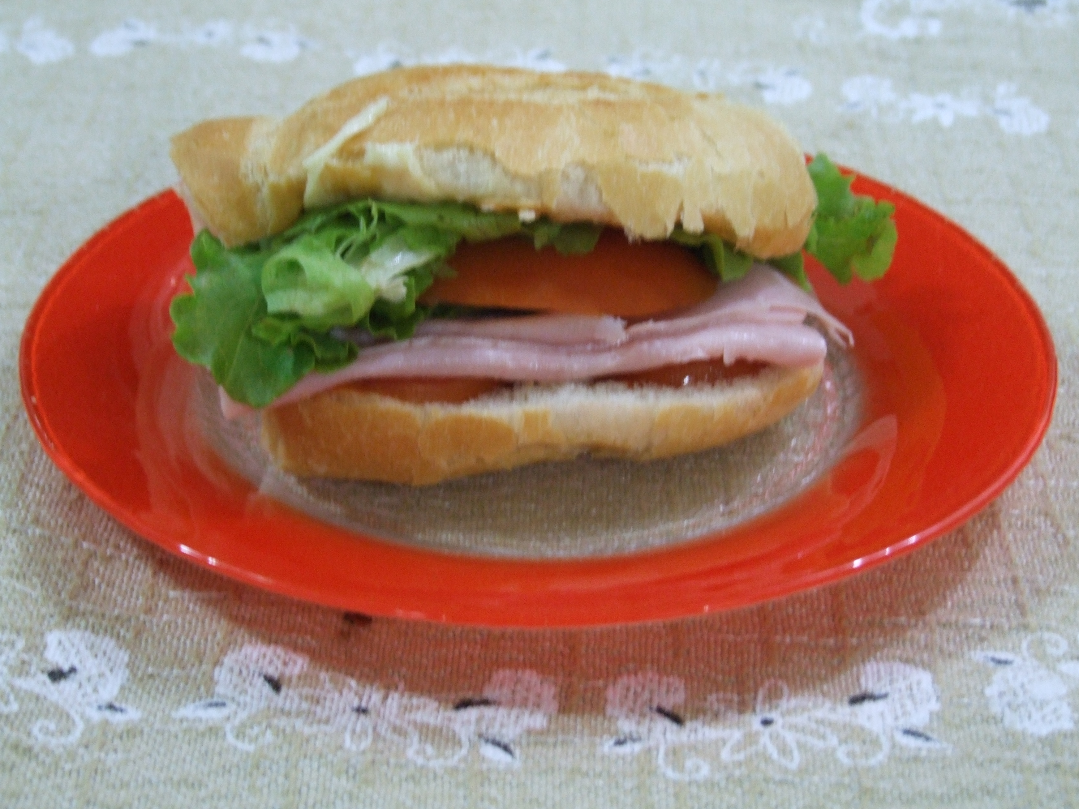 One homemade Portuguese bauru sandwich.